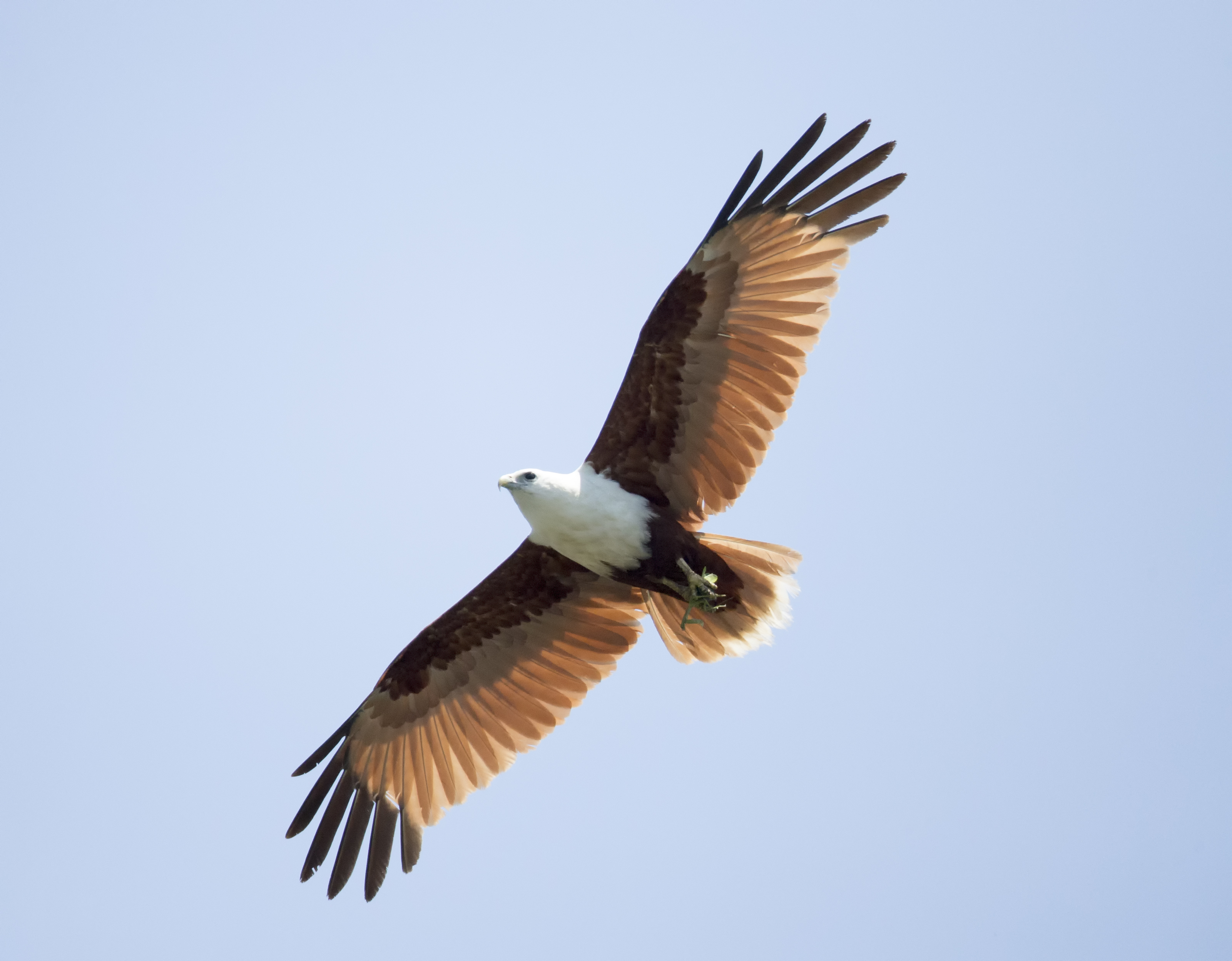 One of my favorite birds, we dont get as many over in North Queensland, as compared to Karratha, WA.